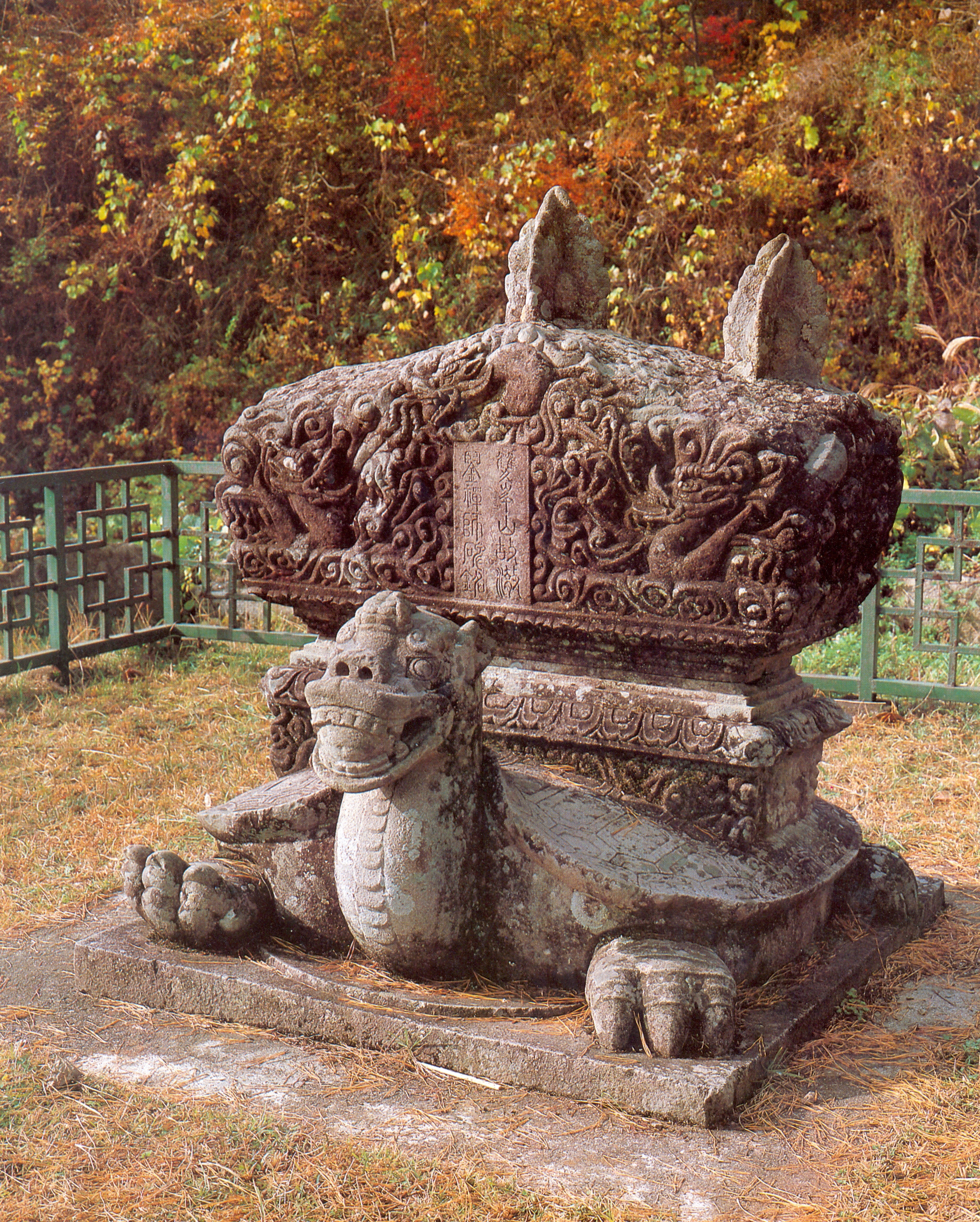 Stele for master Cheolgam at Ssangbongsa temple in Hwasun, Korea